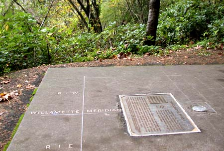 Willamette Stone, in western Portland, Oregon (taken Oct. 25, 2004) © 2004 Matthew Trump